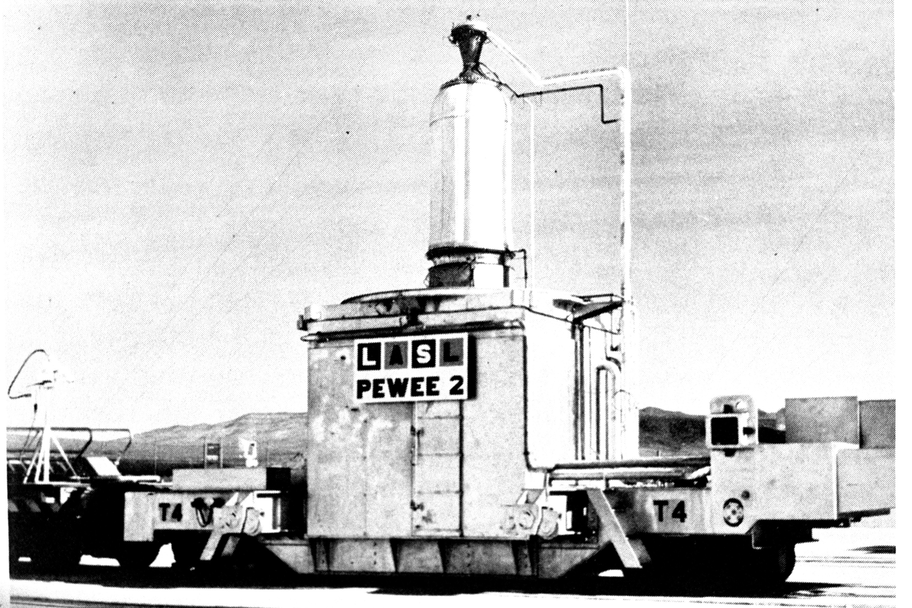 Pewee-2 test stand.